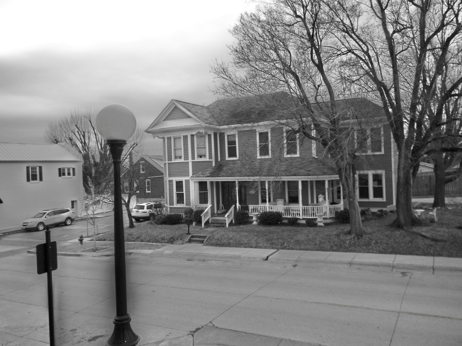 Dr. H.A. May House